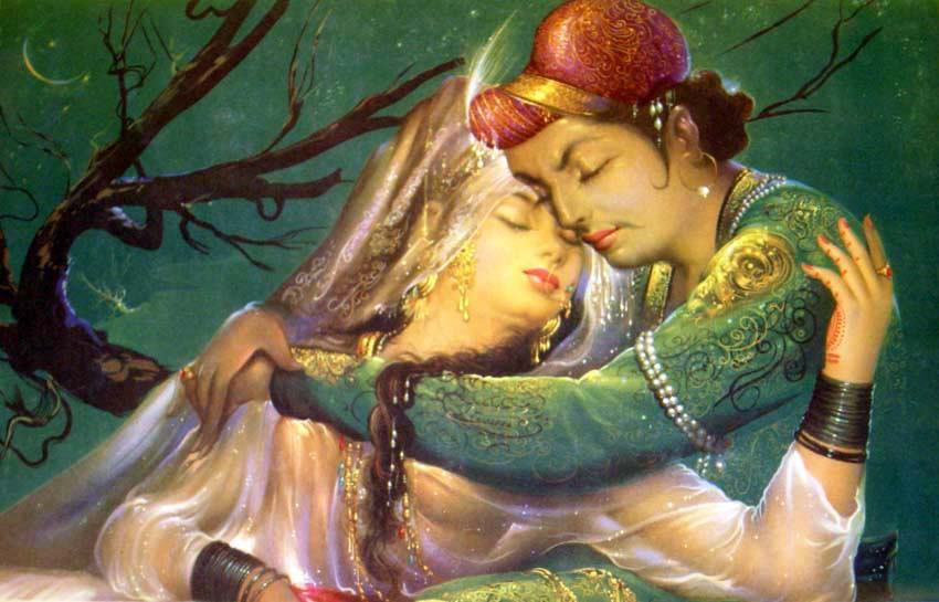 Prince Salim (the future Jahangir) and his legendary illicit love, the dancing girl Anarkali (bazaar art, 1940's) Source: ebay, May 2005